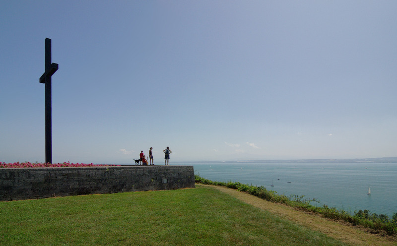 Lerchenberg war memorial near Meersburg